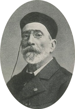 Célestin Anatole Calmels (1822-1906), a French-born sculptor, who spent most of his life in Portugal.